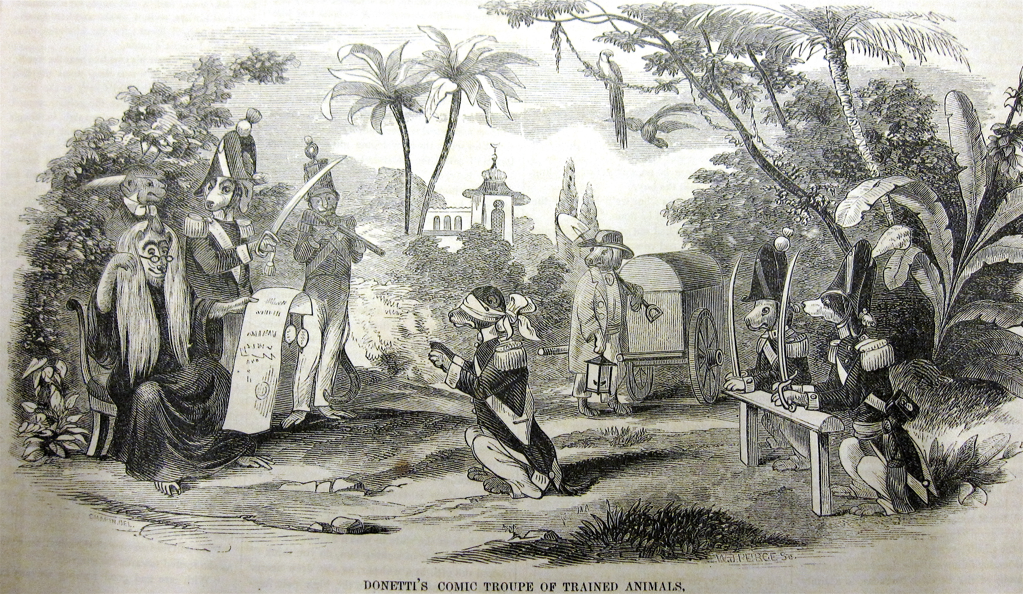 Donetti's Comic Troupe of Trained Animals, in: Gleason's Pictorial 1852